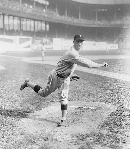 Major League Baseball player "Firpo" Marberry with the Washington Senators, during the 1924 World Series.